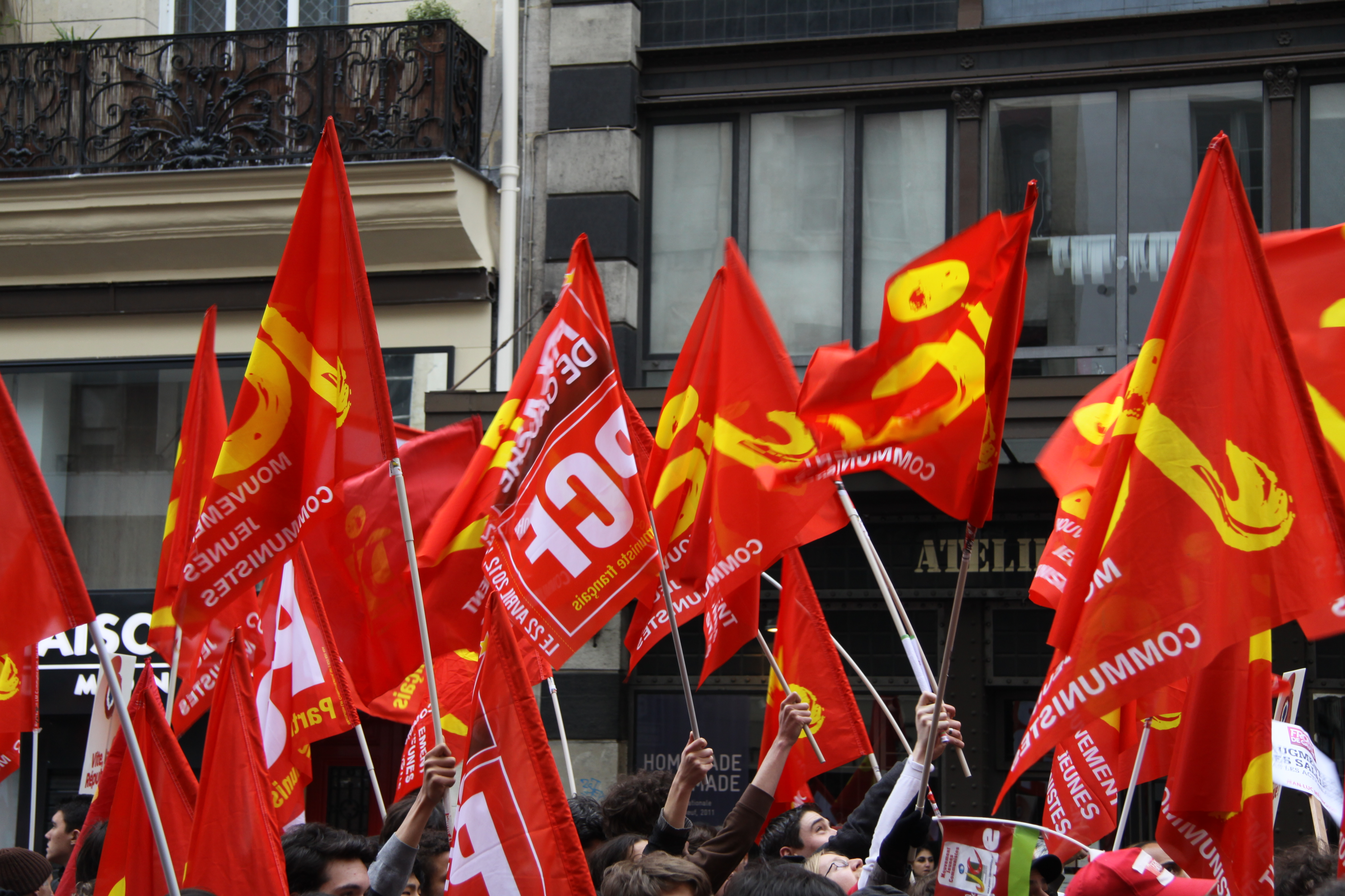 French Communist Party's meeting for the 2012 French presidential election, Paris, France